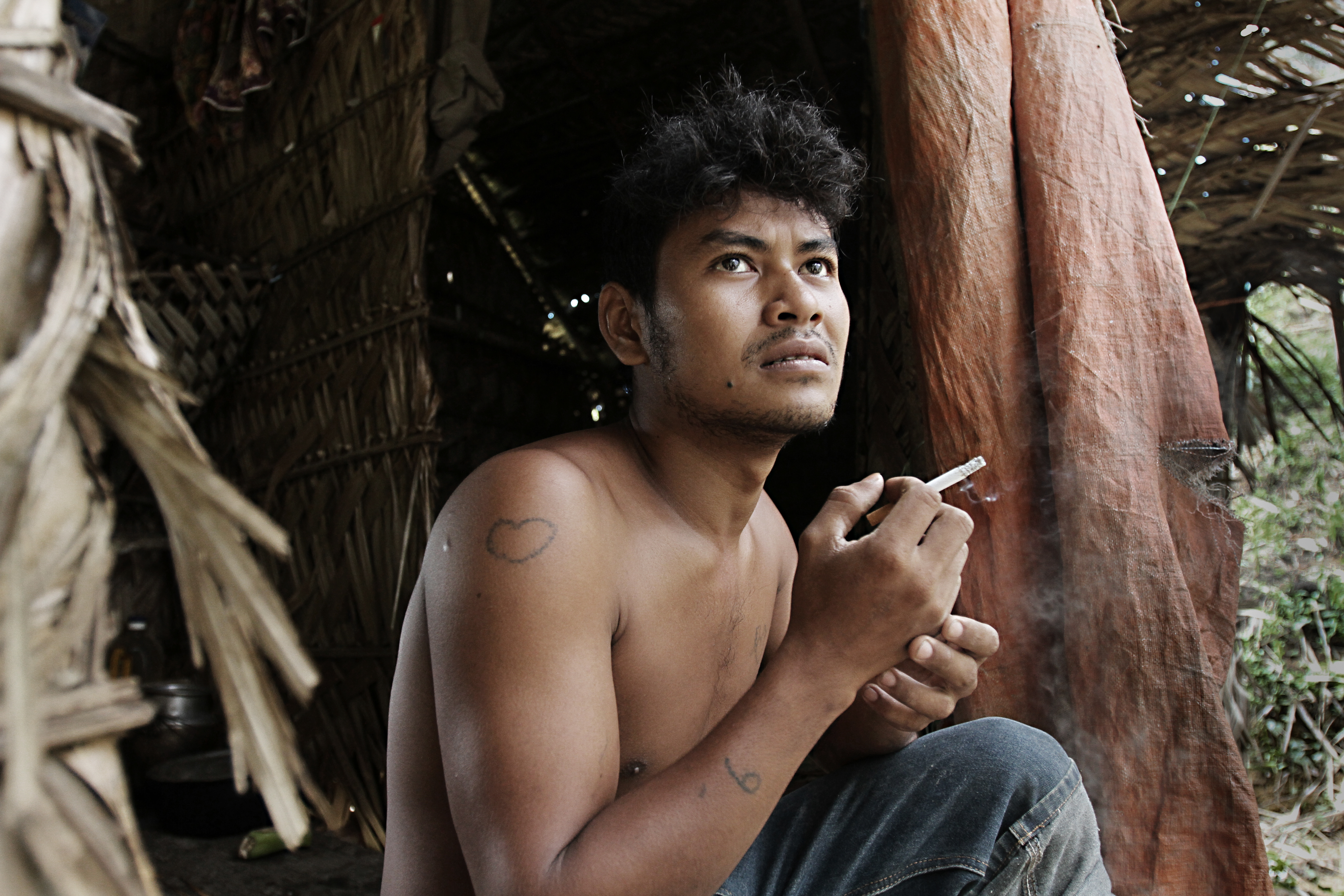 Documentary of The Indigenous People at Johol Negeri Sembilan.